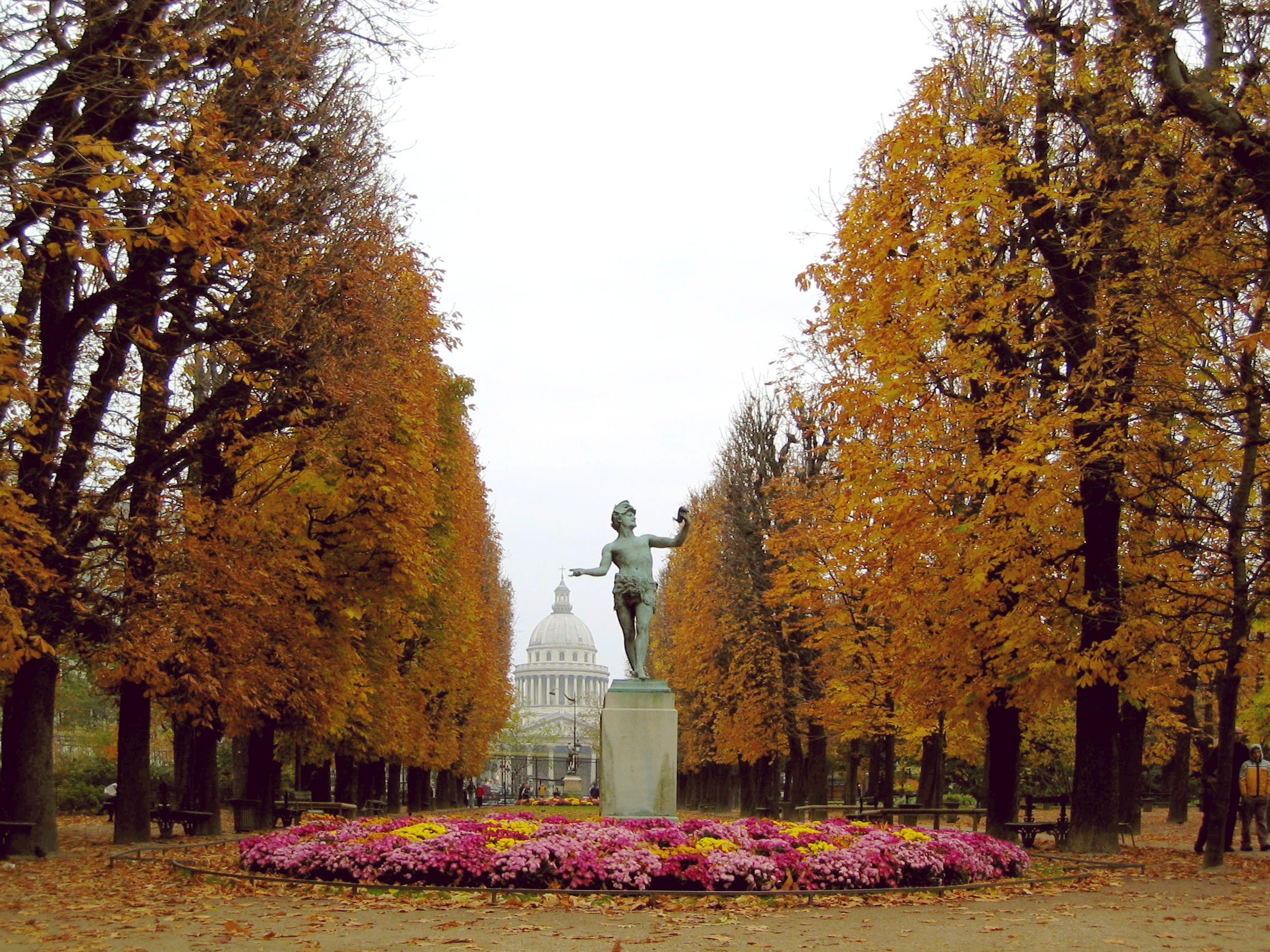 Alley in the Jardin du Luxembourg in Paris - France.